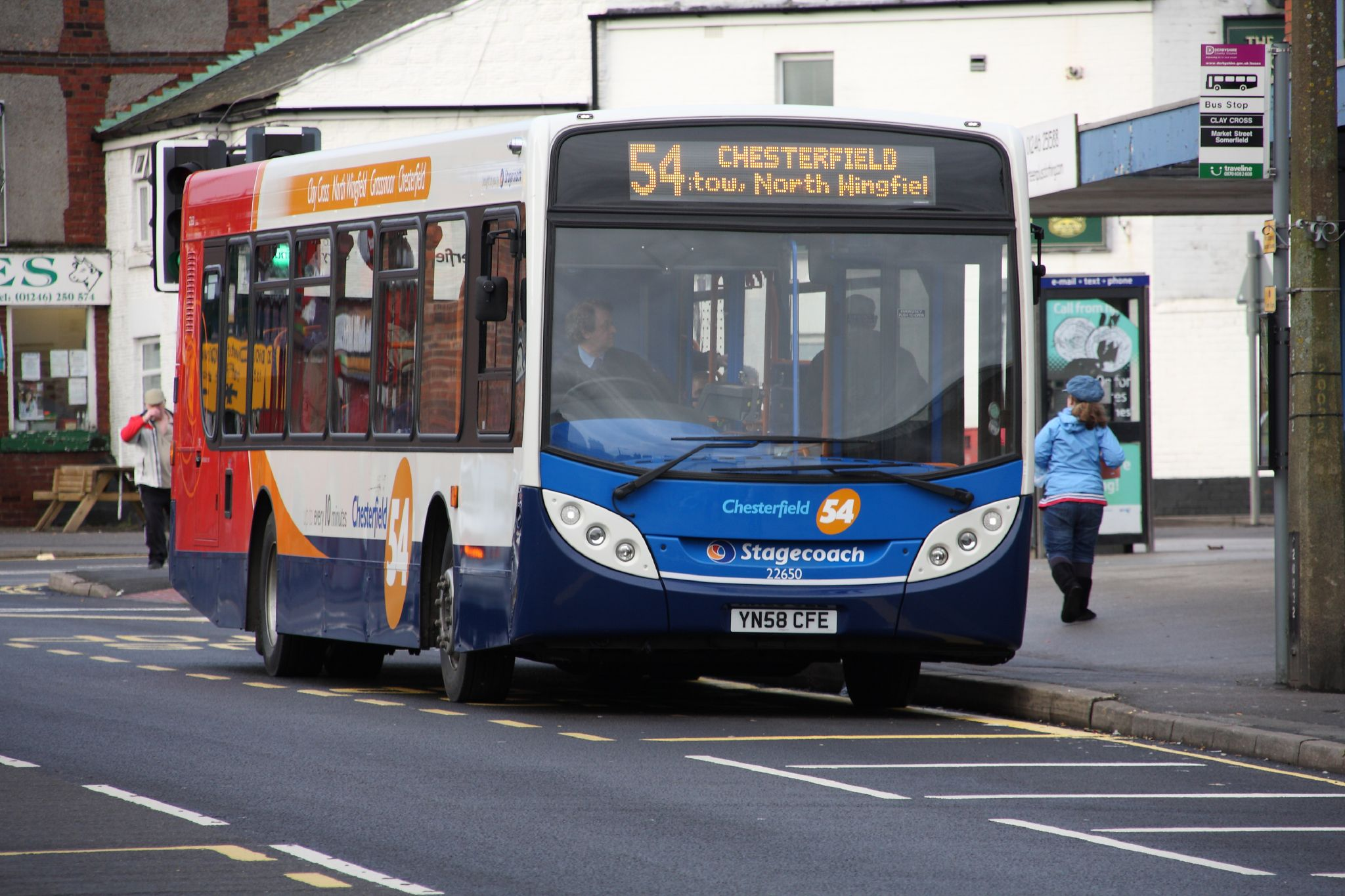 Dennis Alexander 22650, Claycross